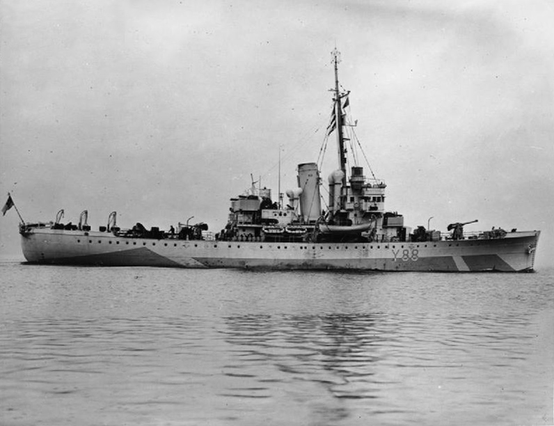 Photograph of Royal Navy Banff class sloop HMS Totland, originally USCGC Cayuga.